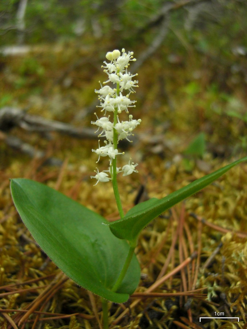 Maianthemum canadense Desf. 20090618 (photo #16) Jackman Flats, BC